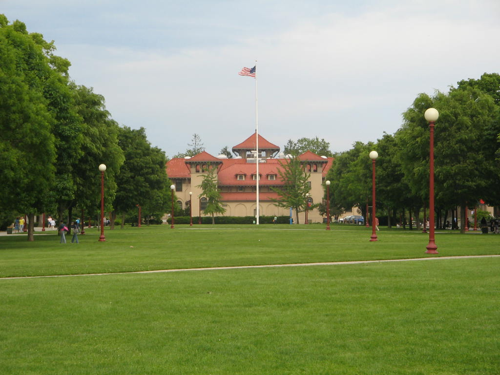 The QC Quad.